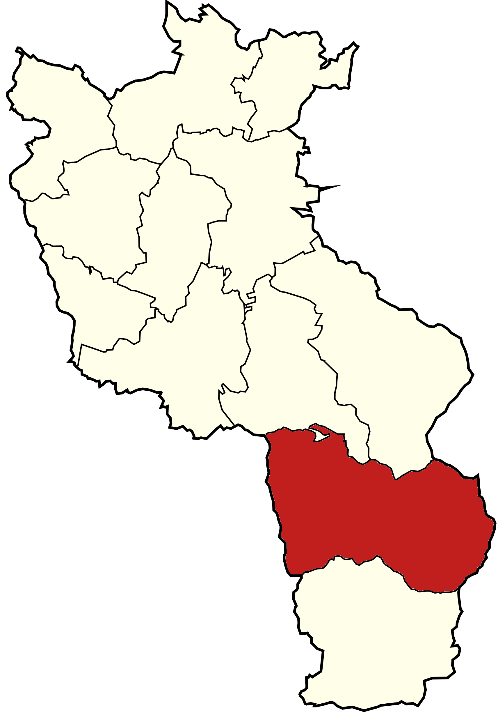 Wisła on Cieszyn county map